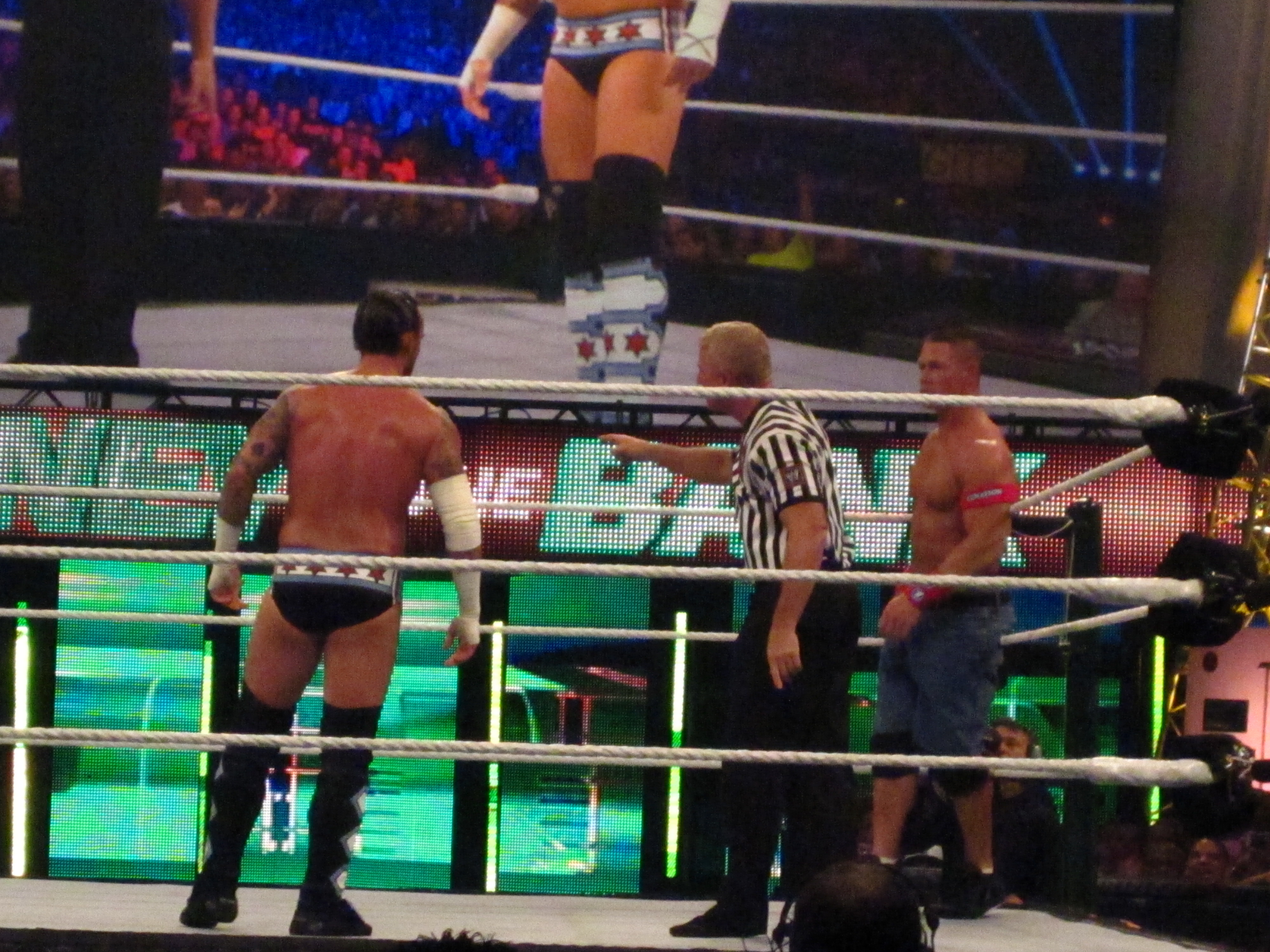 During the Money the Bank pay-per-view in Rosemont, Illinois on 17 July 2011, CM Punk (left) faces John Cena (right) in a WWE Championship match.